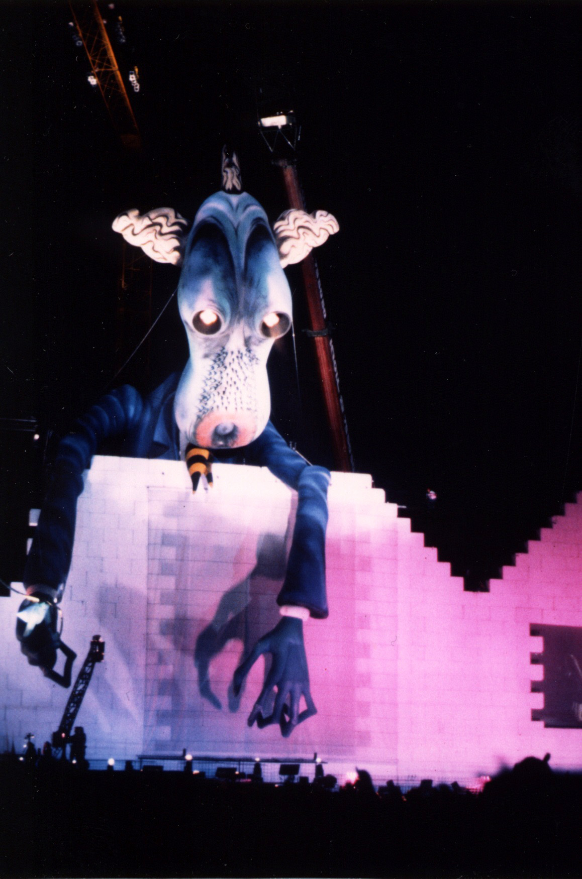 The Schoolmaster puppet looms over The Wall, in Berlin, 1990